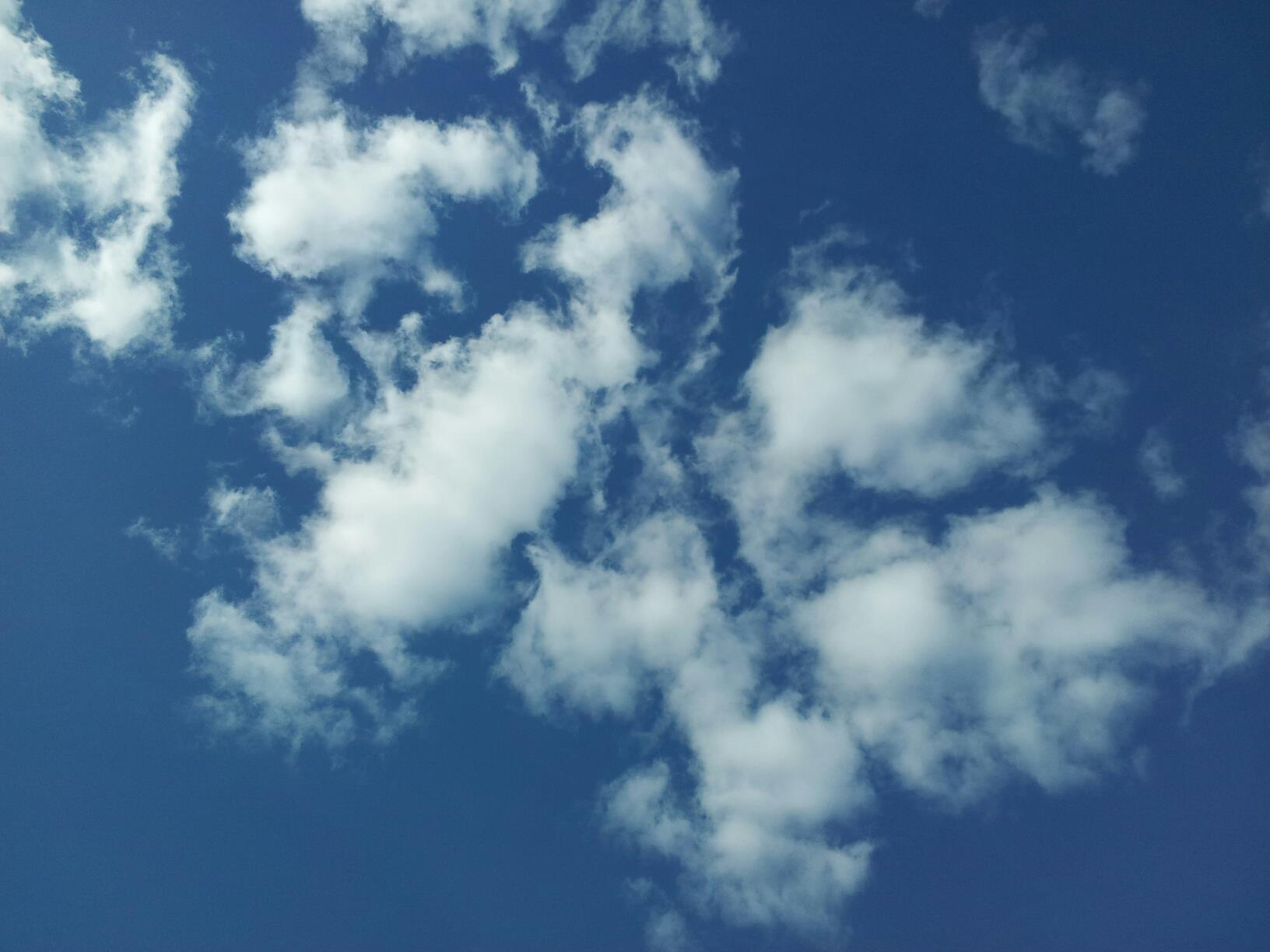 Clouds from Sweden